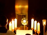 Adoration of the Blessed Sacrament, the Eucharist, the Body of Christ. The Eucharist is held in a modern monstrance, flanked by candles. We gaze over the shoulders of altar servers who are kneeling in adoration.